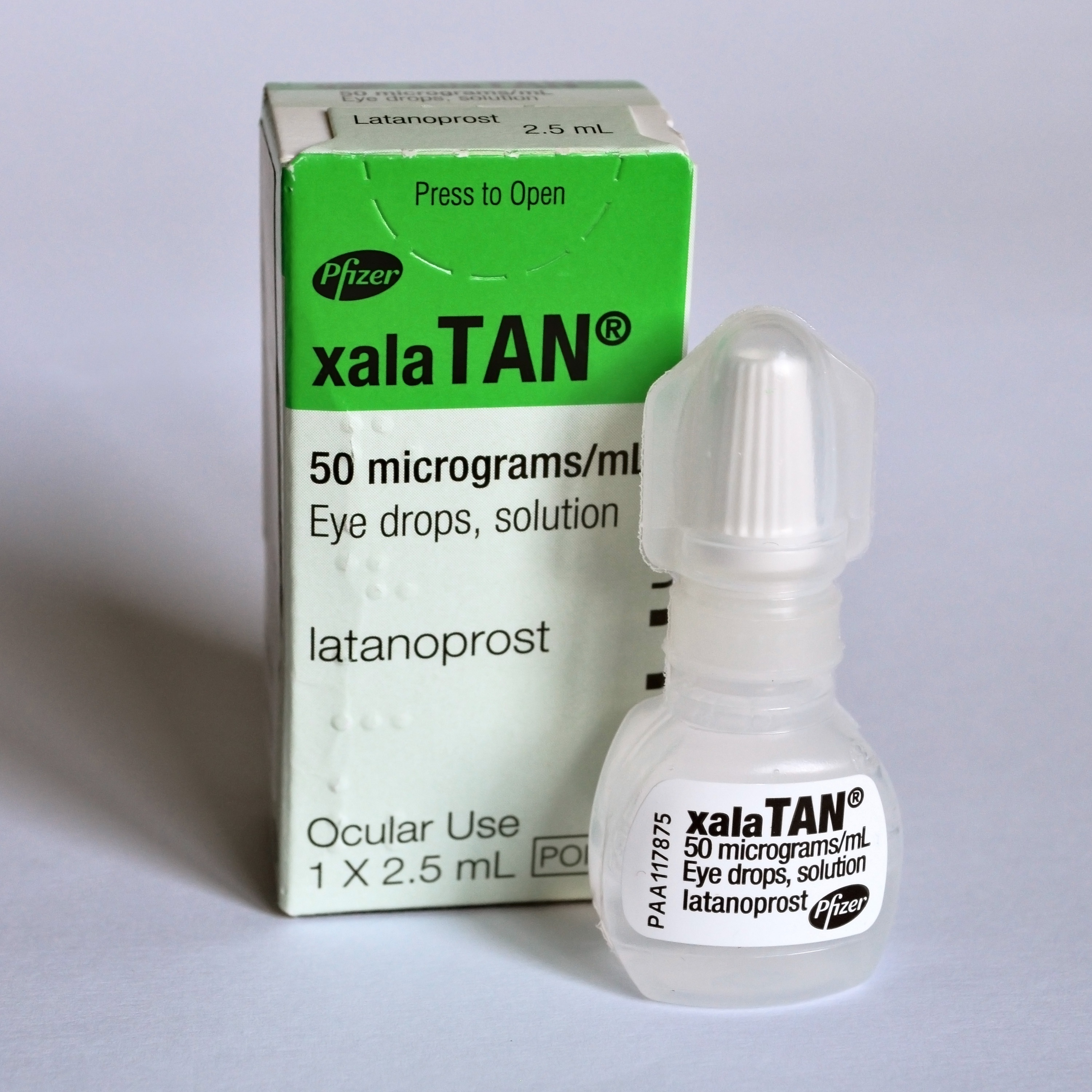 Packaging for Pfizer "xalaTAN"-branded latanoprost eye drops. (This version supplied as part of NHS Scotland prescription by Boots. I've no idea if (and how) packaging varies in other markets.)